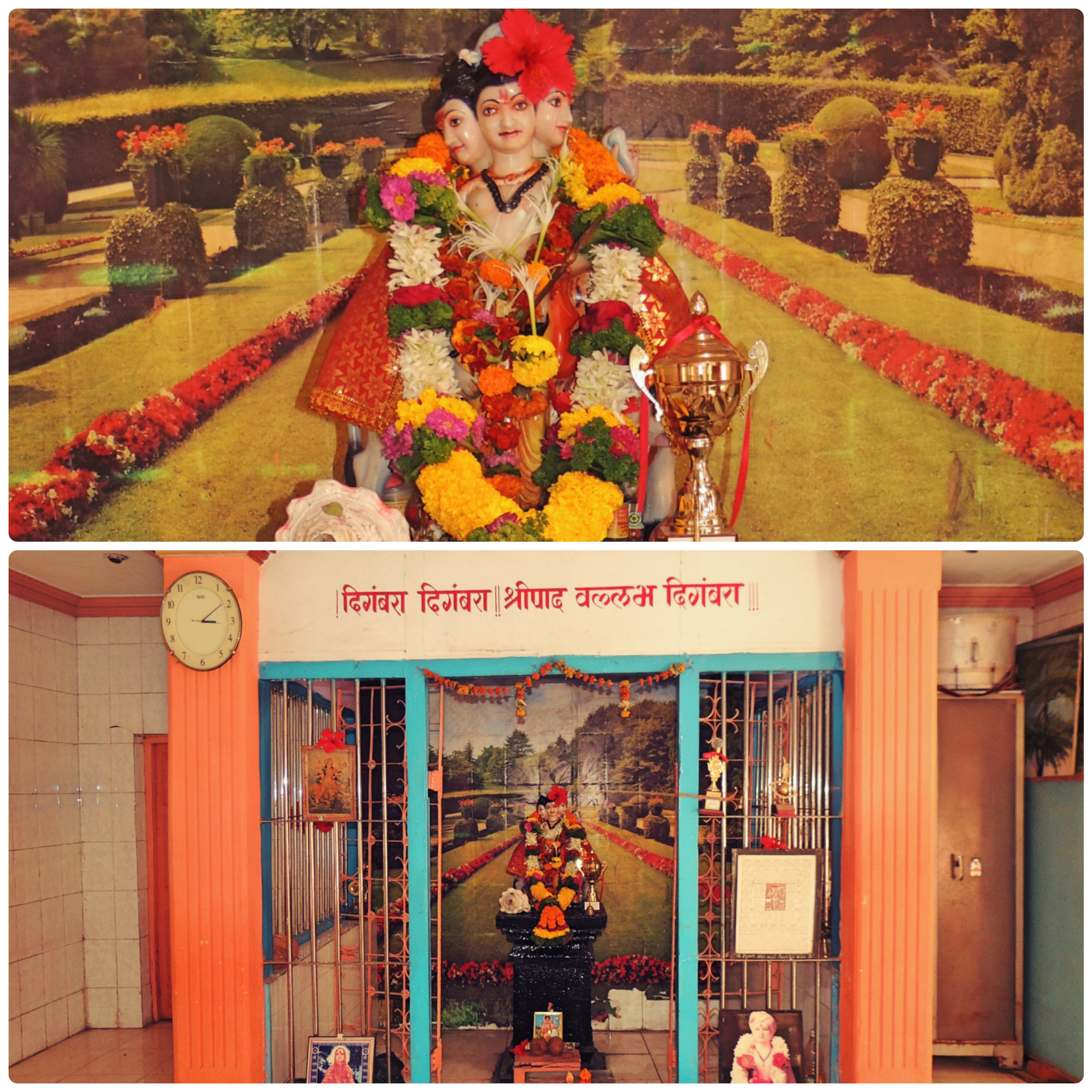 A temple devoted to Lord Dutta, it is revered and worshiped by many.Annual fair is organised on the occasion of Datta Jayanti, celebrating the birth of Lord Dutta.